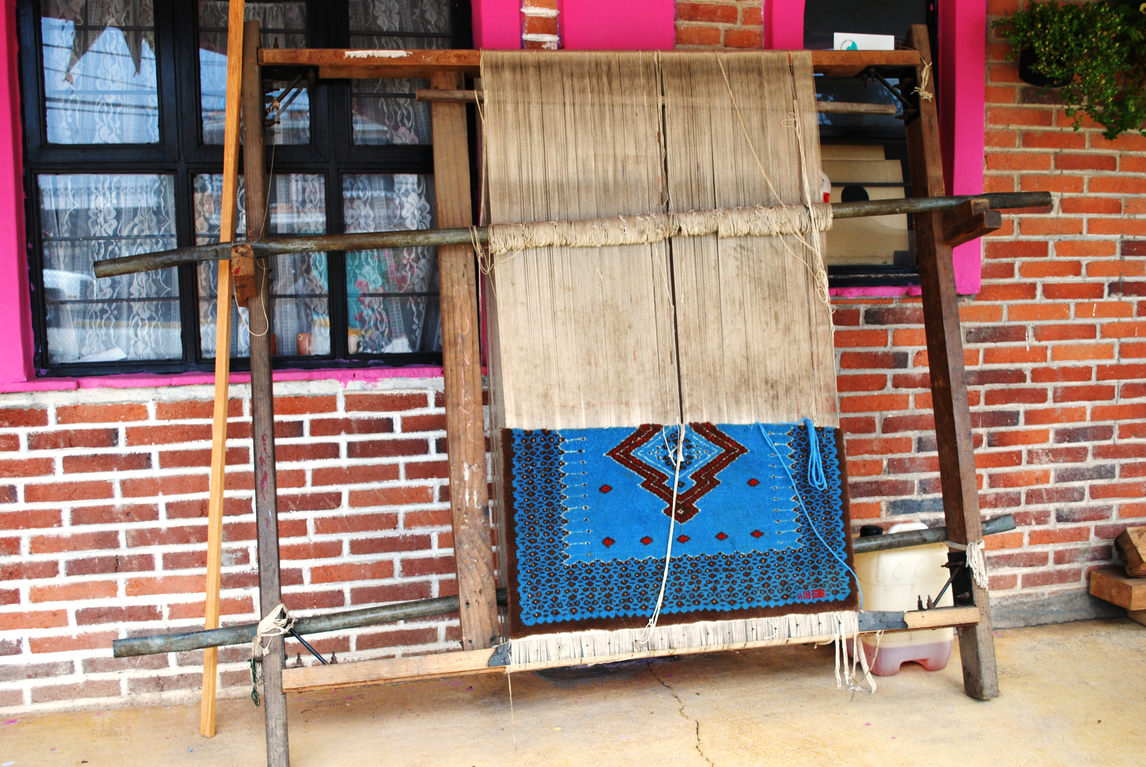 Sample of rug in progress outside the rug cooperative of San Pedro Abajo, Temoaya, Mexico State